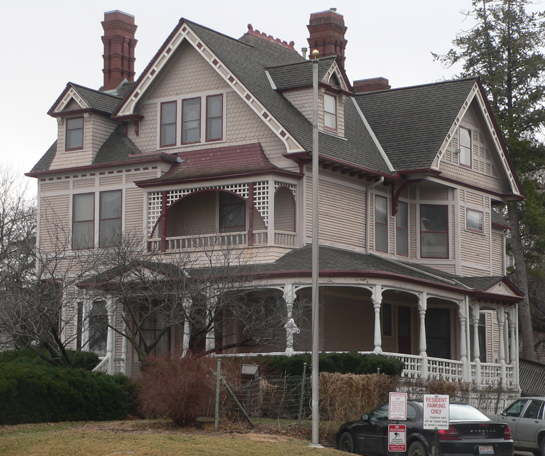 Murphy-Sheldon house, located at 2525 N Street in Lincoln, Nebraska; seen from the northwest.